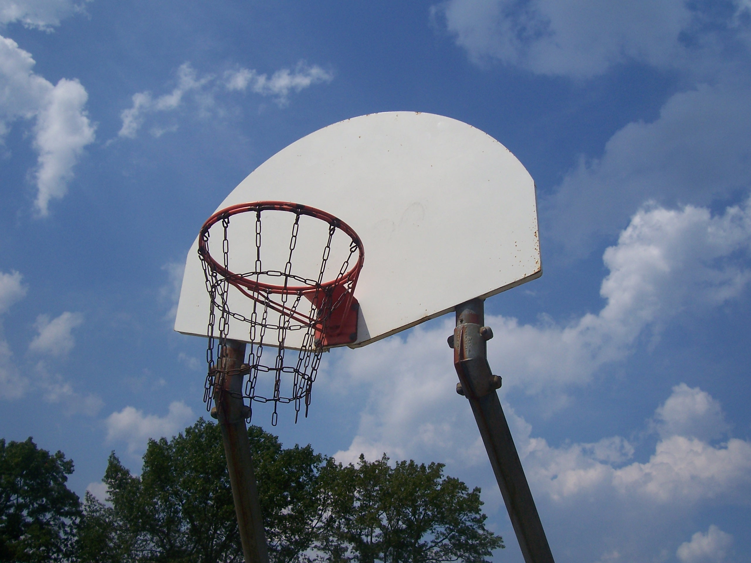 R-town Basketball net